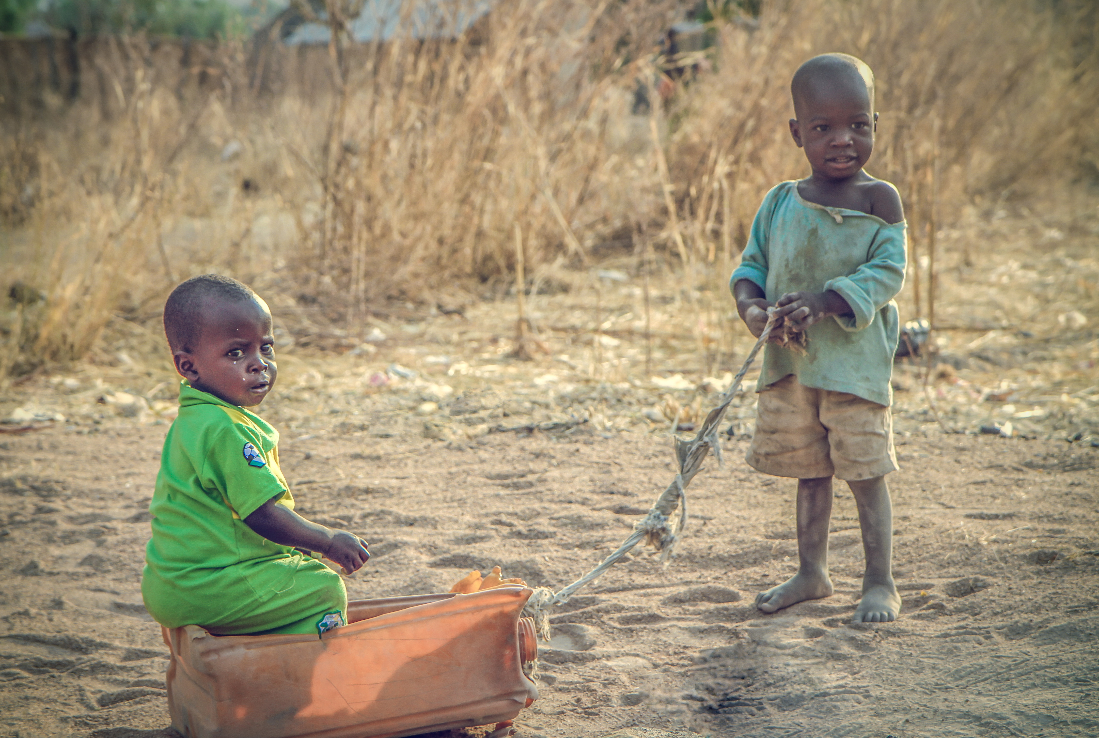 This is an image of "African people at work" from Nigeria